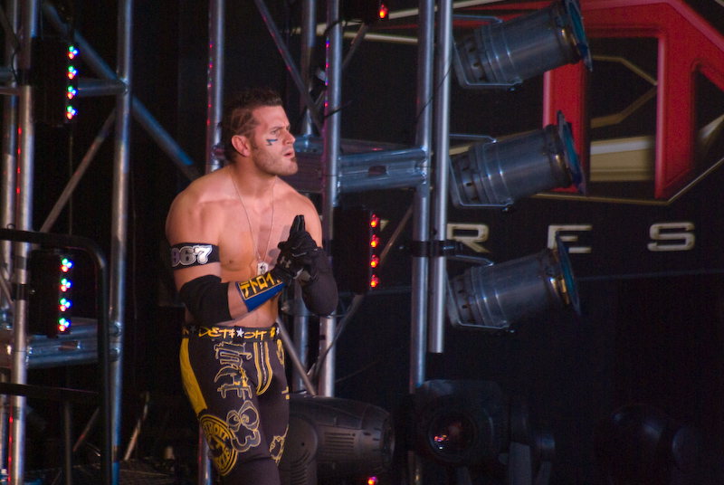 Alex Shelley making his entrance at the TNA PPV "Bound to Glory IV"